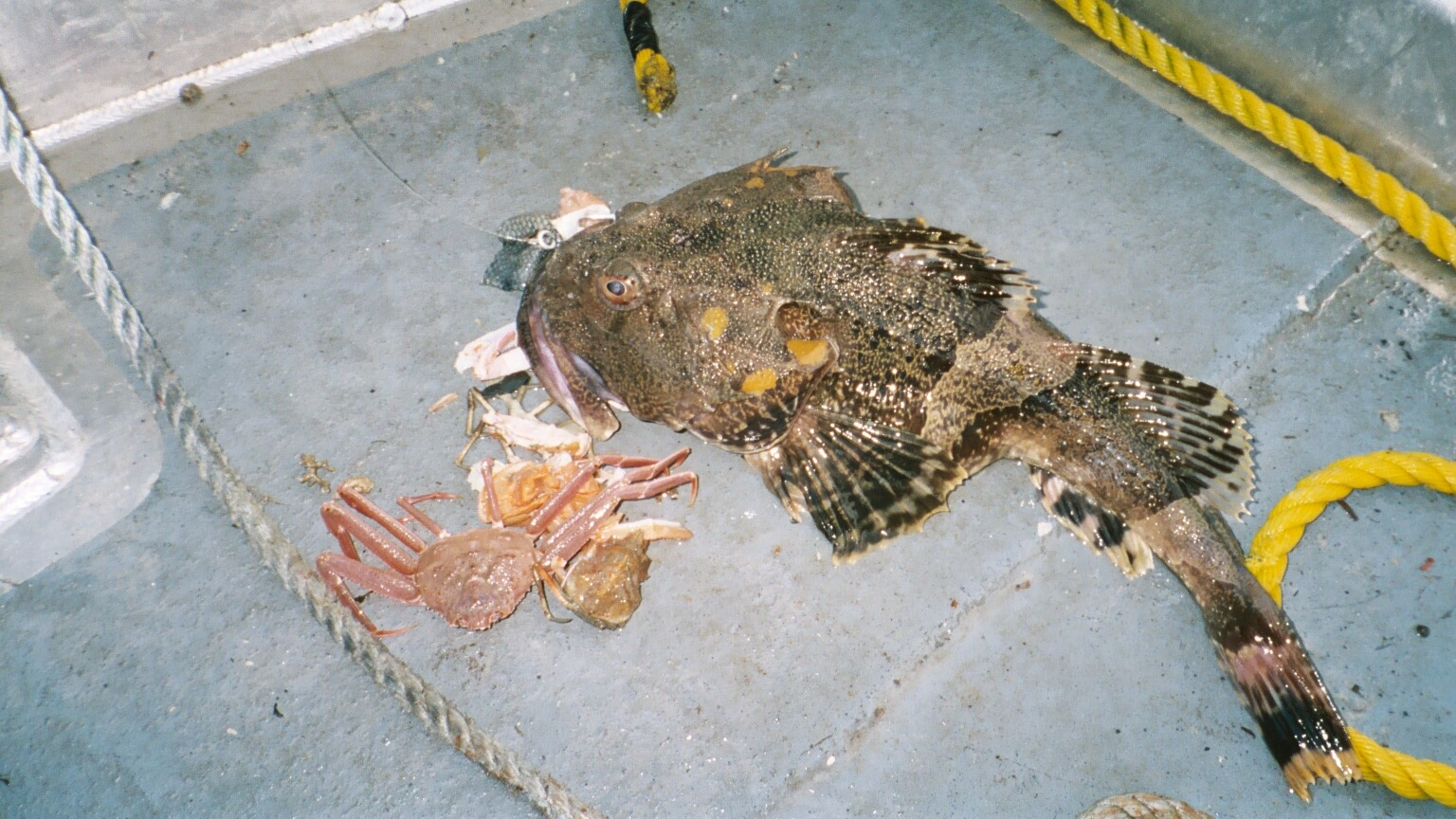 A Great Sculpin (Myoxocephalus polyacanthocephalus) which coughed up the contents of its stomach when caught in Prince William Sound, Alaska.